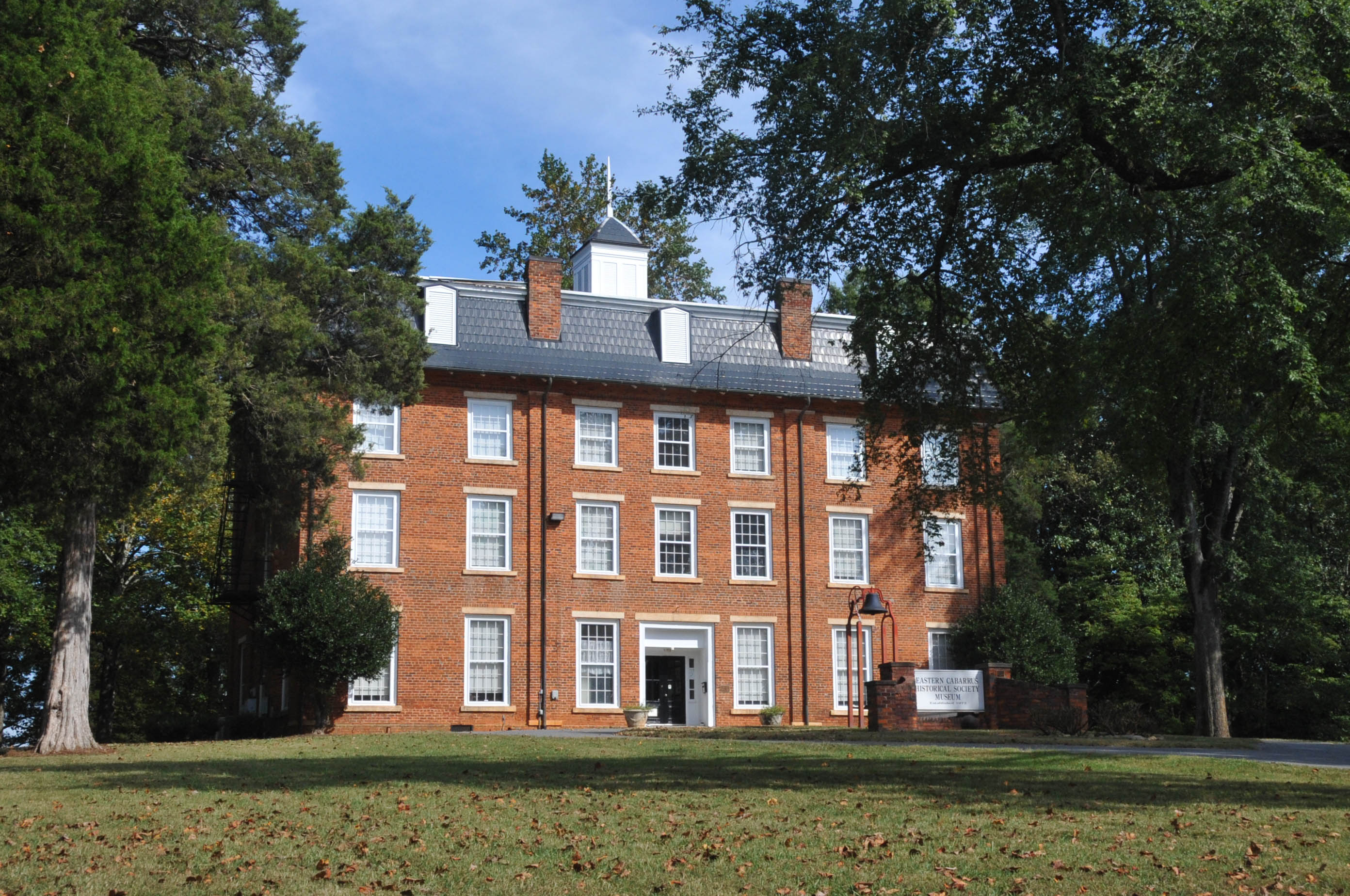 SEVERAL MID-19TH-CENTURY BUILDINGS OF THE WESTERN CAROLINA MALE ACADEMY ESTABLISHED IN 1852. THE HANDSOME THREE-STORY MAIN BUILDING IS NOW THE EASTERN CABARRUS HISTORIC MUSEUM